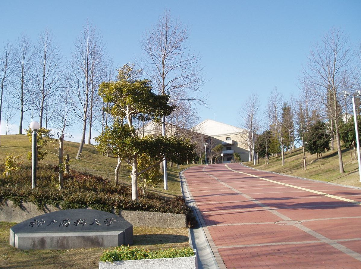 The entrance of Kobe-Gakuentoshi Campus, the University of Hyogo, located in Nishi-ku, Kobe City, Hyogo Prefecture, Japan. The nameplate shows its former name, Kobe University of Commerce. The newer nameplate (on the opposite side of the path) is not shown in this picture. Photograph taken from outside the site.